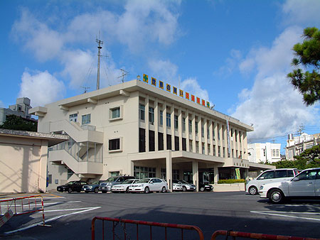 Yonabaru Police Station